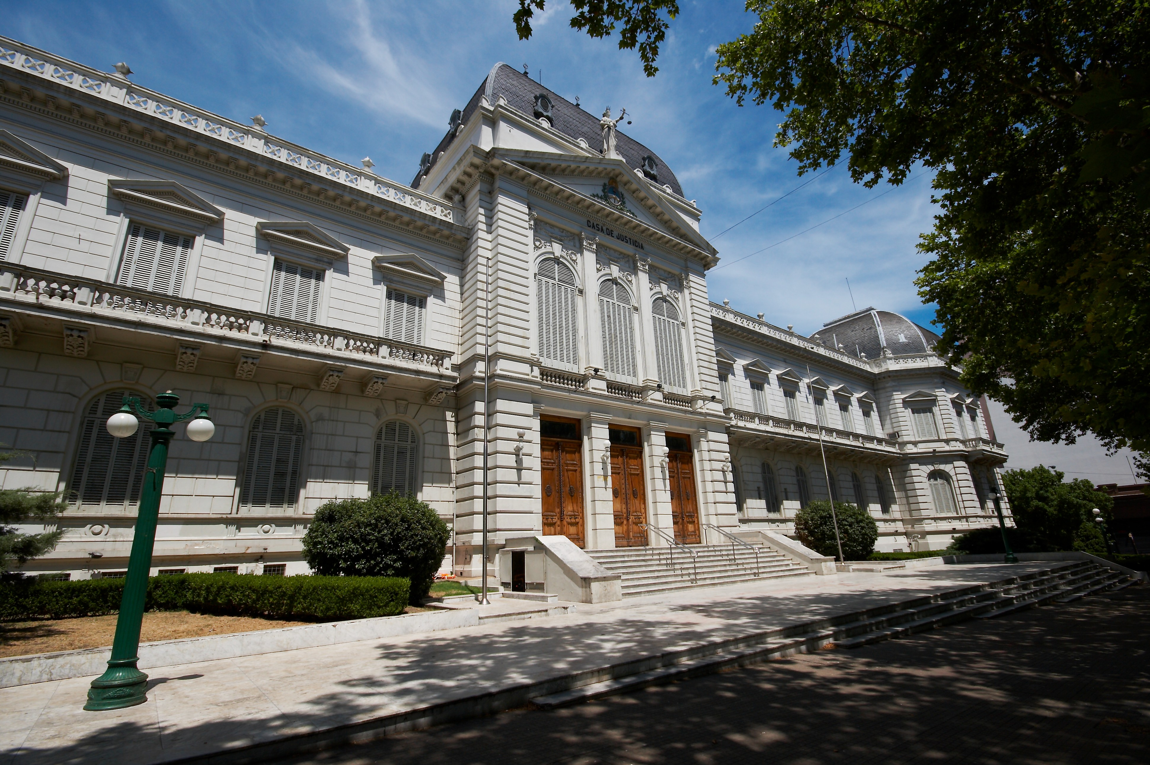 Palacio de Justicia, La Plata, Argentina.